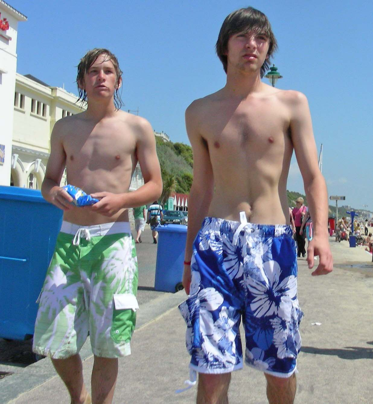 2 guys at the beach, summer 2009